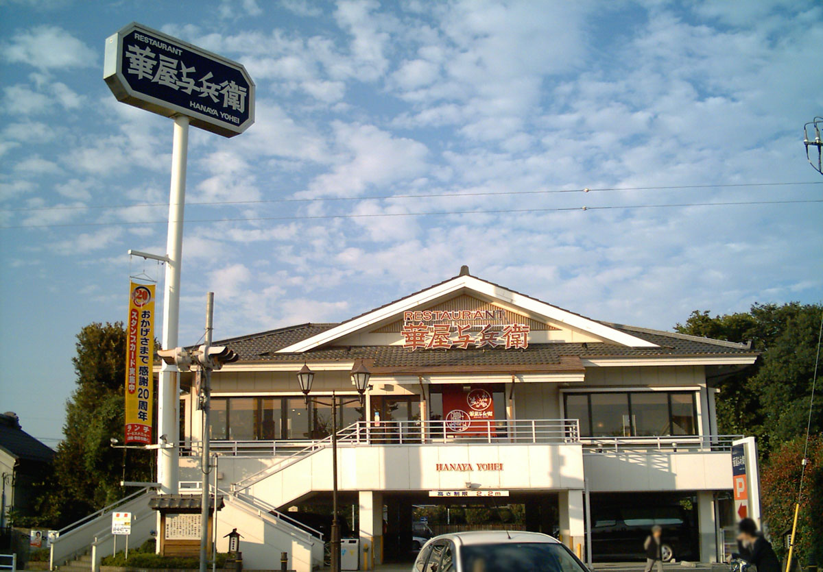 Hanaya_Yohei_Restaurant_in Japan photography day, 2006/10/15 photography person kici